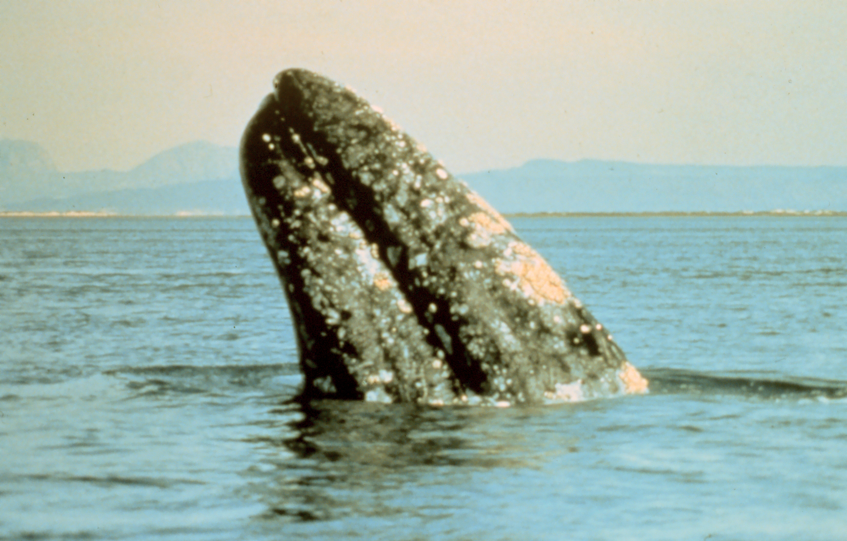 Gray whale - Eschrichtius robustus - at Scammons Lagoon